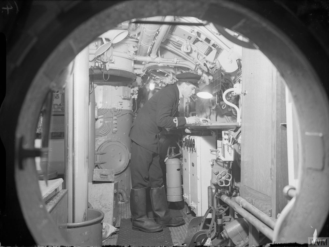 The Navigation Officer in the Control Room of HMS GRAPH, formerly the German U-Boat U-570; she is in the Clyde undergoing trials.